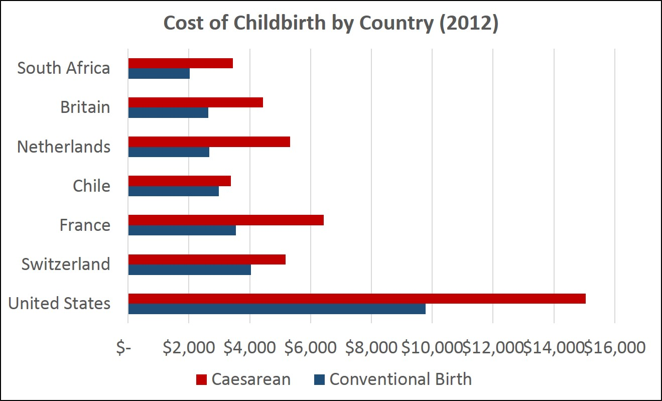 cost of childbirth by country generated using data in the NYTimes article "American Way of Birth, Costliest in the World", published June 30 2013, article by Elisabeth Rosenthal